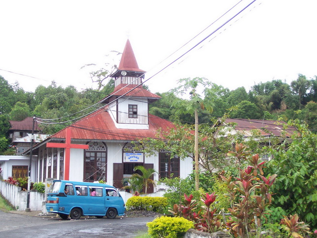 GEREJA TER-TUA DI MINAHASA